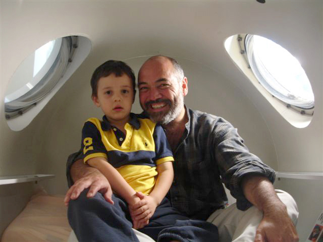 A father and his son inside a hyperbaric oxygen chamber. The boy is being treated for autism spectrum disorders.